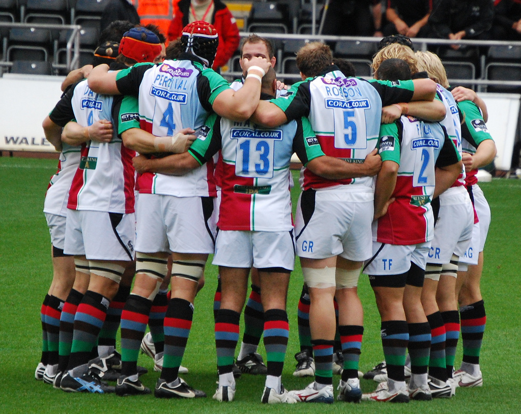 Harlequins